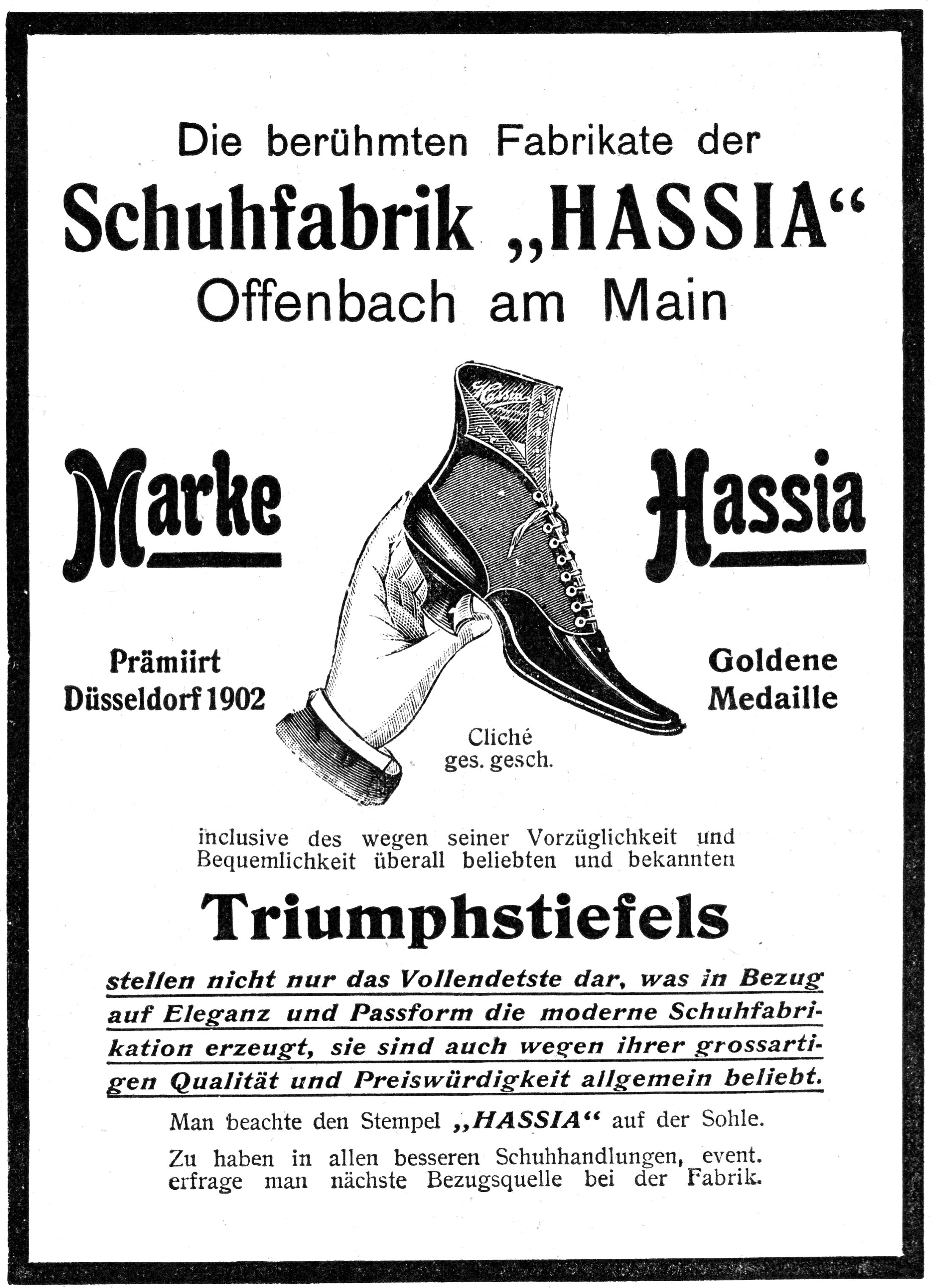 Advertisement for shoes